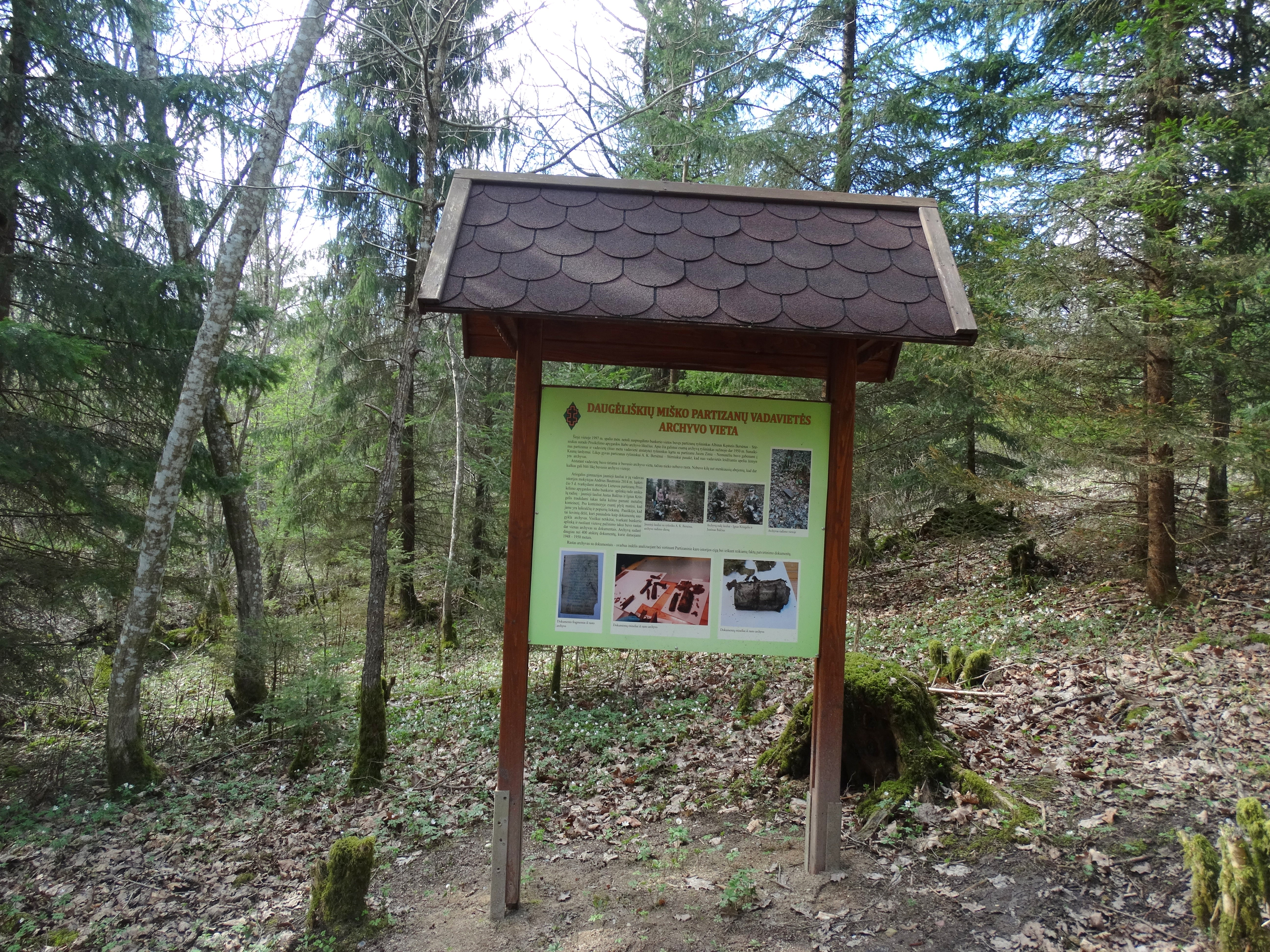 Memorial to partisans, Daugėliškiai forest, Raseiniai district, Lithuania